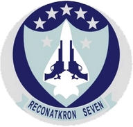 Insignia of the U.S. Navy Reconnaissance Heavy Attack Squadron 7 (RVAH-7).